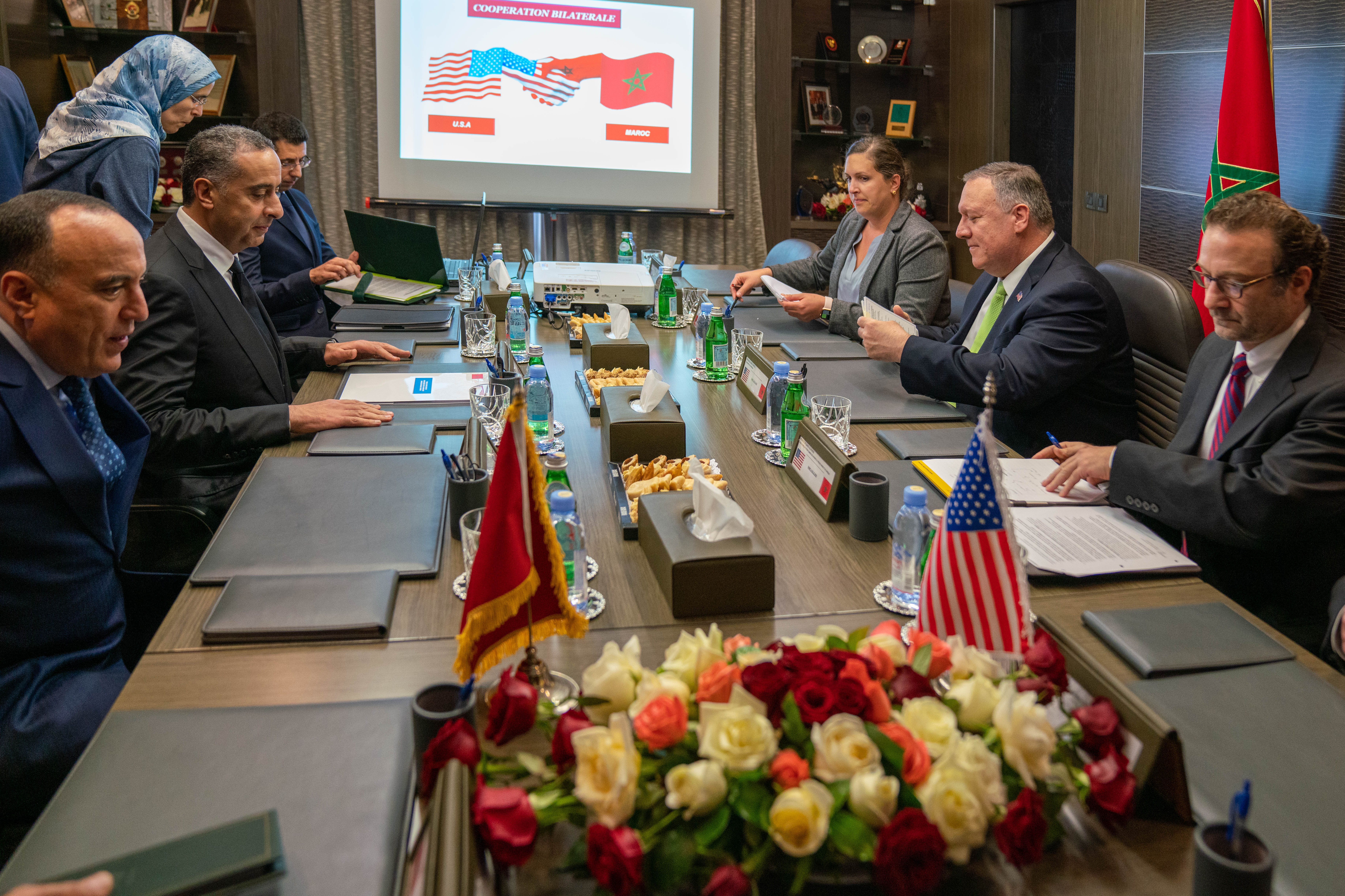 Secretary of State Michael R. Pompeo meets with Moroccan Director General of National Security Abdellatif Hammouchi, in Rabat, Morocco, on December 5, 2019. [State Department Photo by Ron Przysucha/ Public Domain]